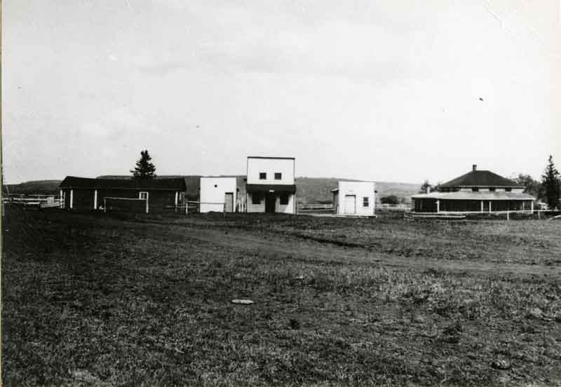 House and outbuildings of Ellis Borden's stopping place at Swan Lake, Alberta. circa 1920.